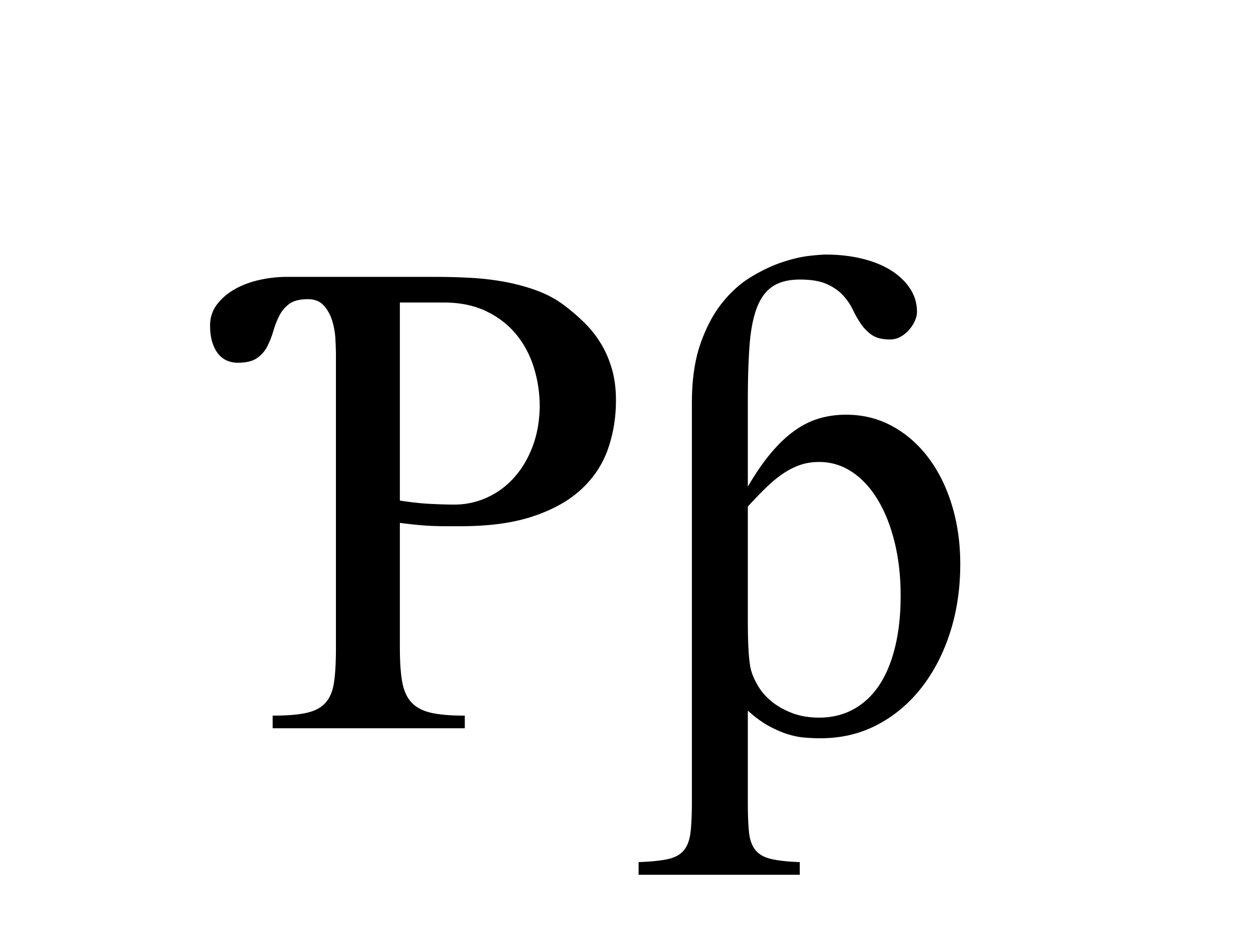 P with hook